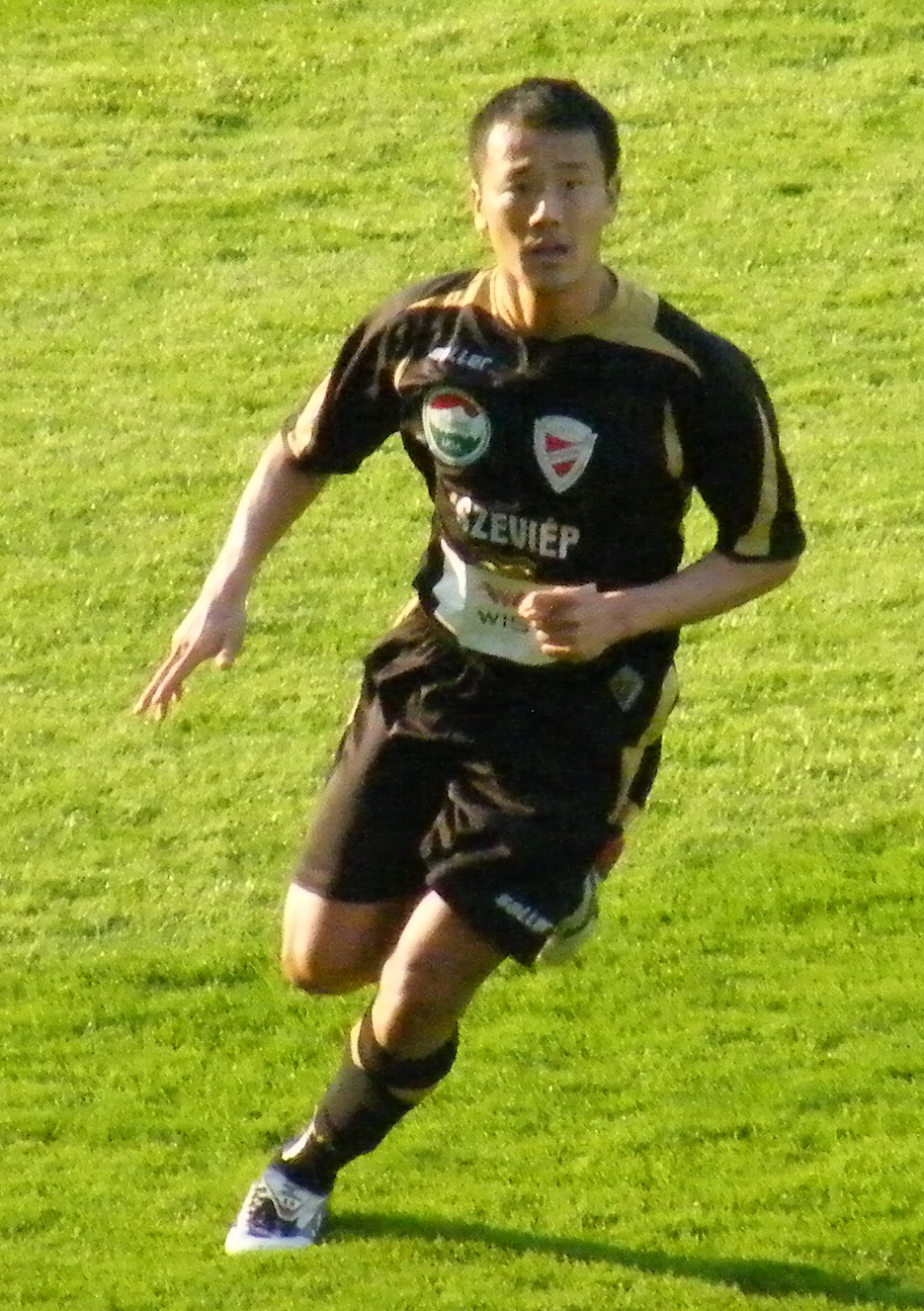 Kazuo Honma Japanese football player